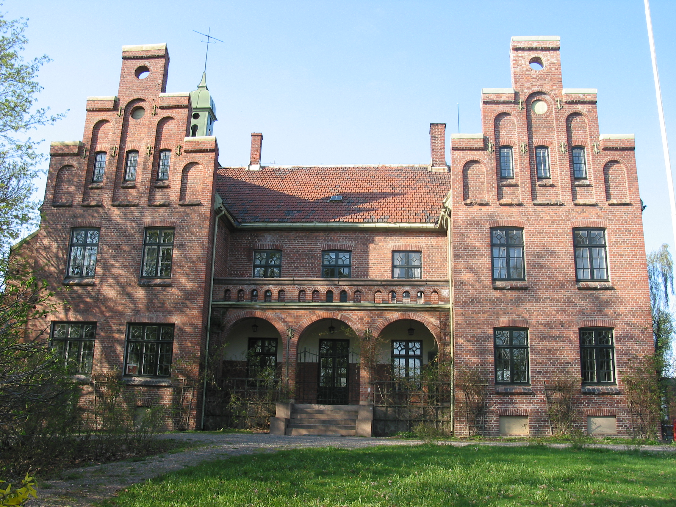 "The Castle" (not a real castle) at Stabekk, erected 1851. Architect Heinrich Ernst Schirmer.